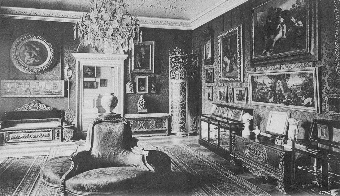 Inside view of the Italienischer Salon, in the former Palais Lanckoronski in 3rd district, Vienna. Photo was taken in 1895